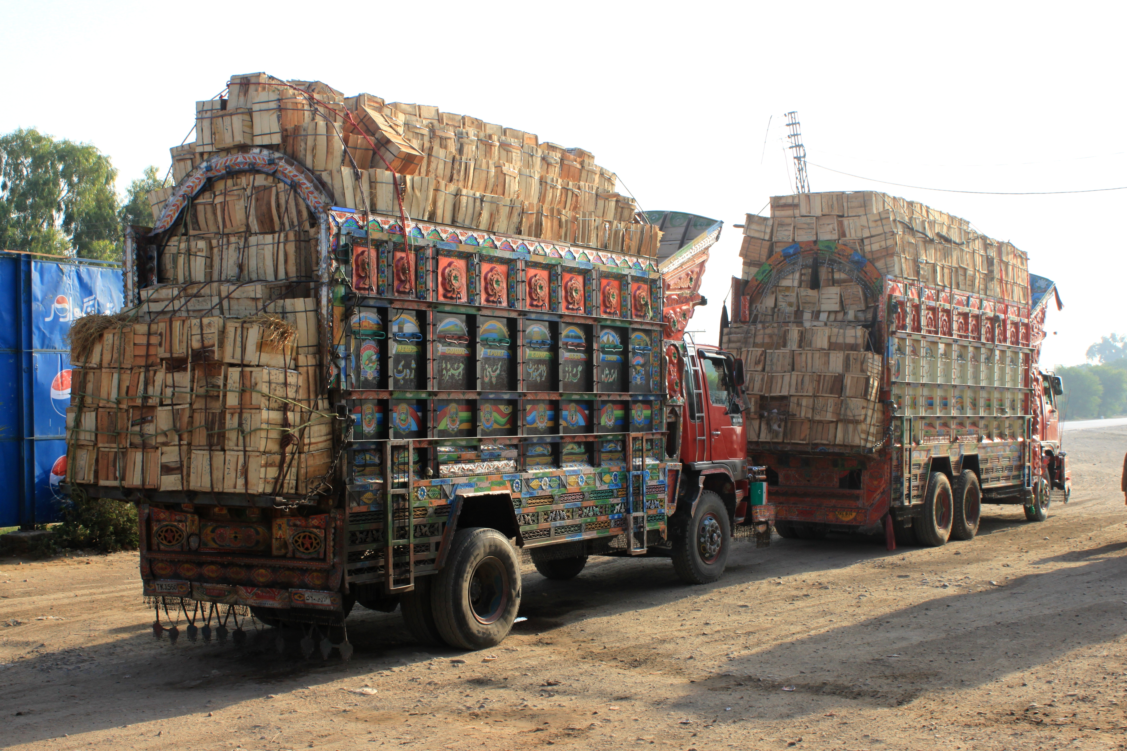 These trucks, at the cafe where we had breakfast, looked beautiful.